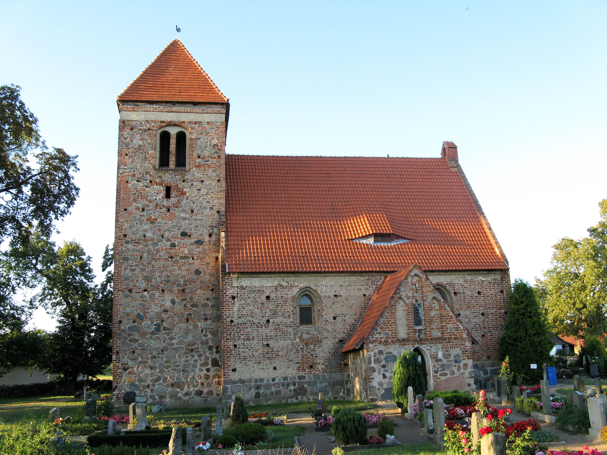 Church in Sommerstorf, disctrict Mecklenburgische Seenplatte, Mecklenburg-Vorpommern, Germany